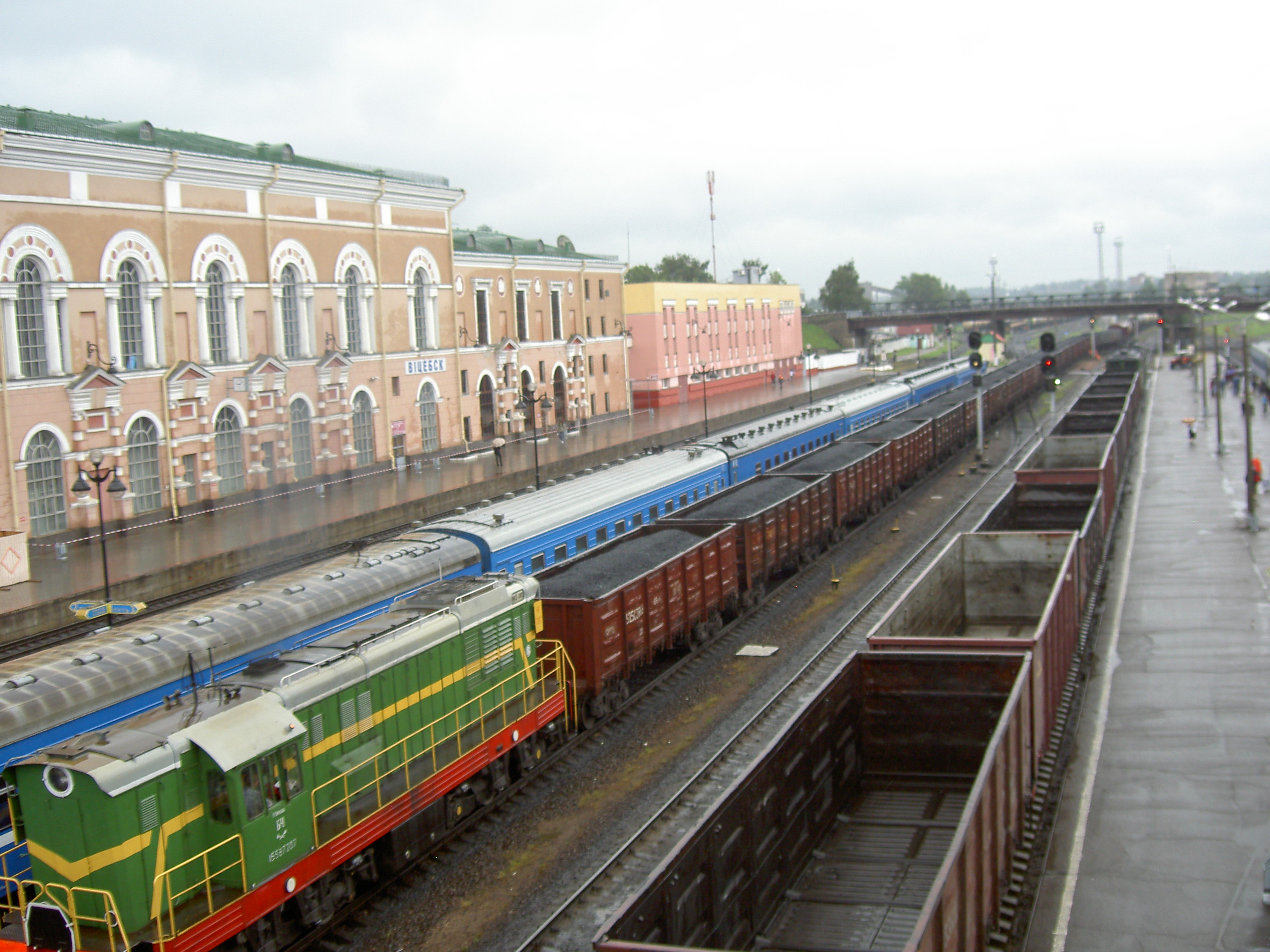 Vitebsk railway station